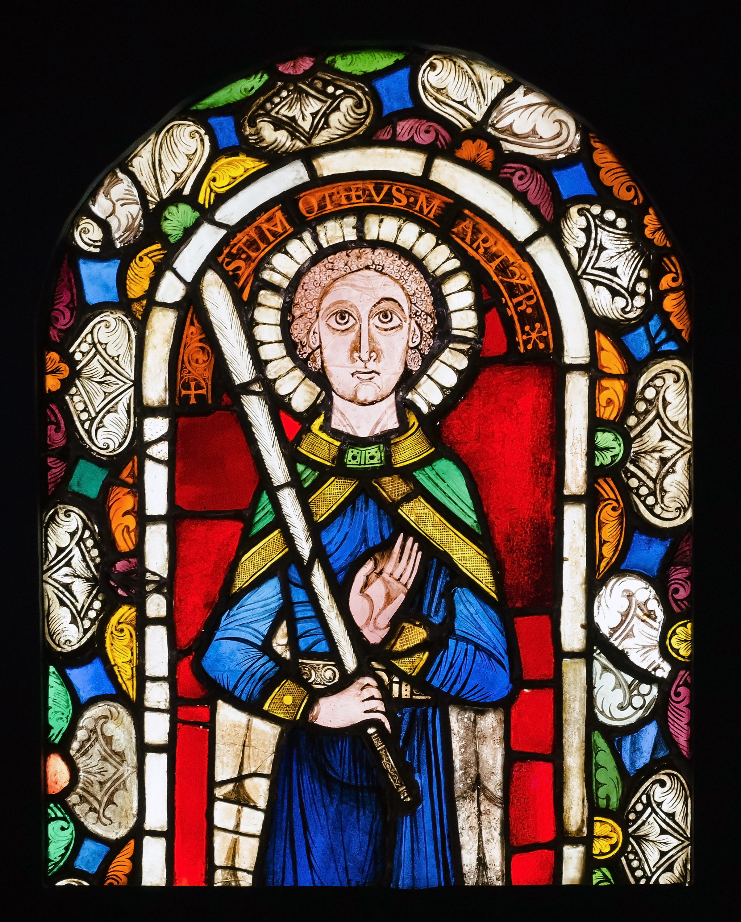 Stained glass depicting Saint Timothy. ca. 1160. Musée national du Moyen Âge, Paris.